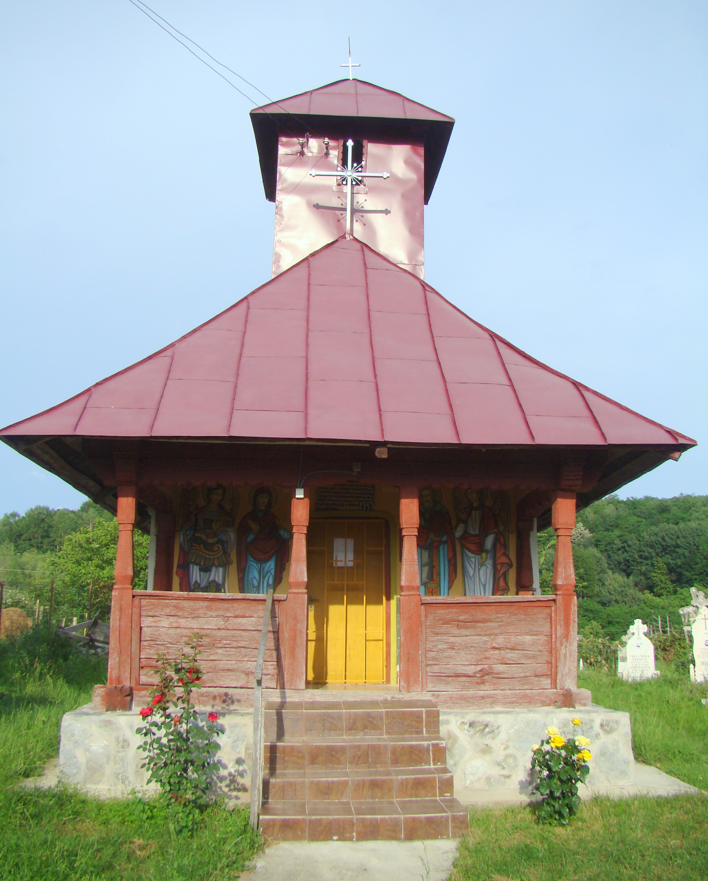 Wooden church in Becheni, Gorj county, Romania